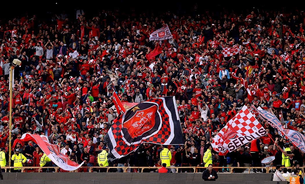 AFC Champions League Final 2018